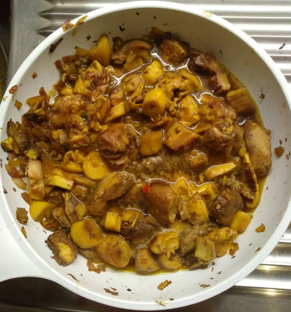 Cooked Agaricus xanthodermus in pan, showing its typcial yellow color change. Usually a very intense smell of phenol can be observed. Source by myself (Snaj. Previously published